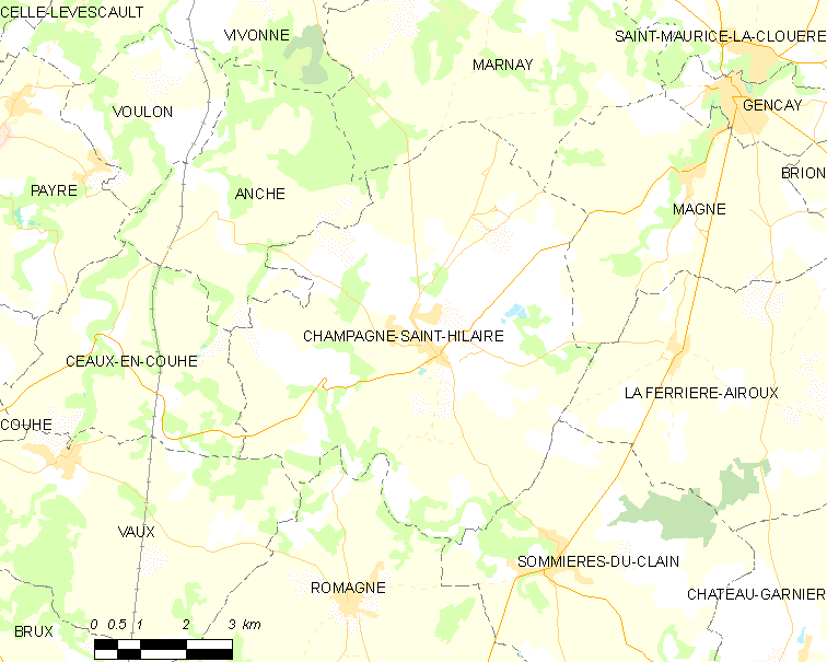 Map of French municipality Champagné-Saint-Hilaire